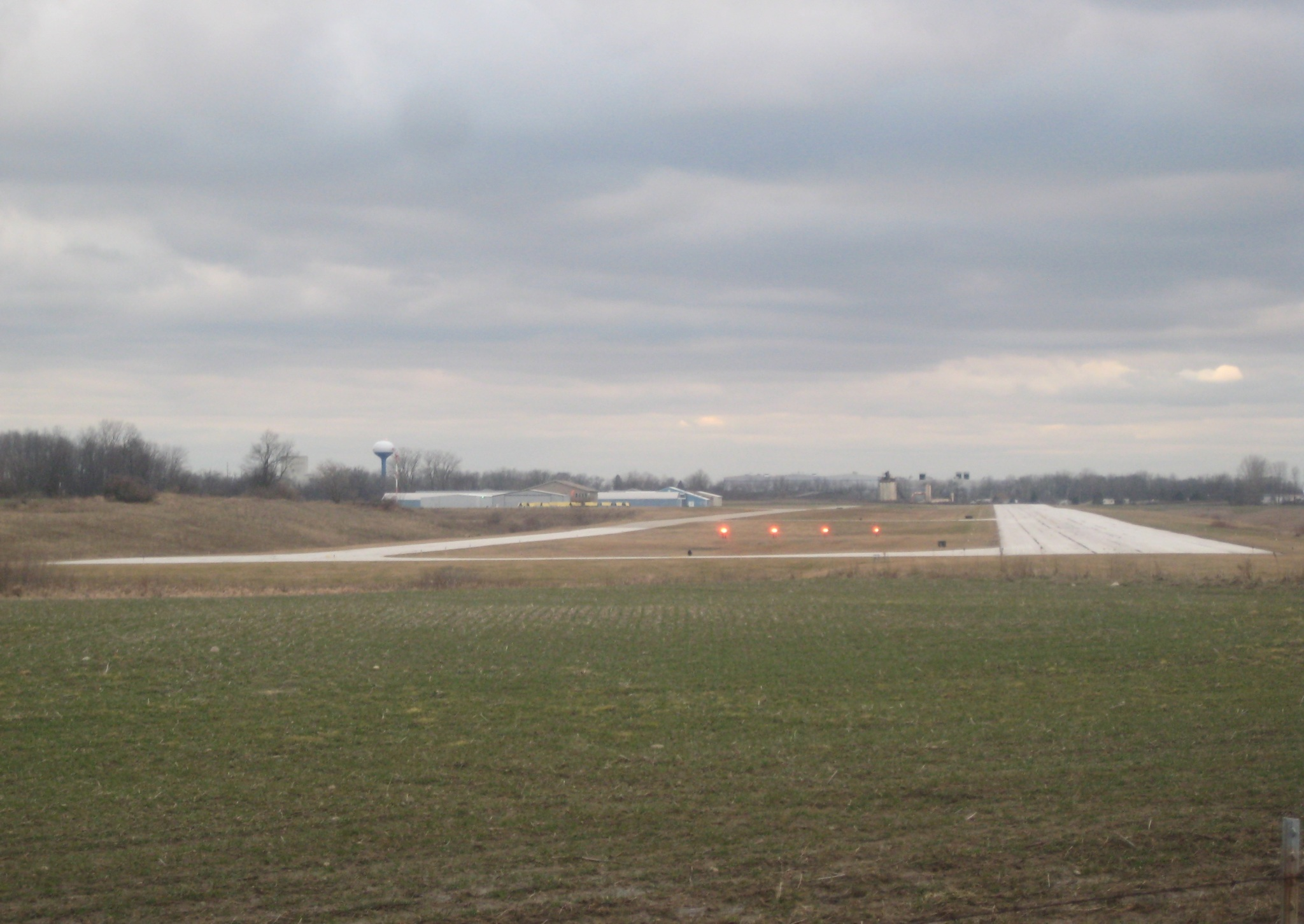 Mason Jewett Field airport runway 10/28, facing west from West Dexter Trail.